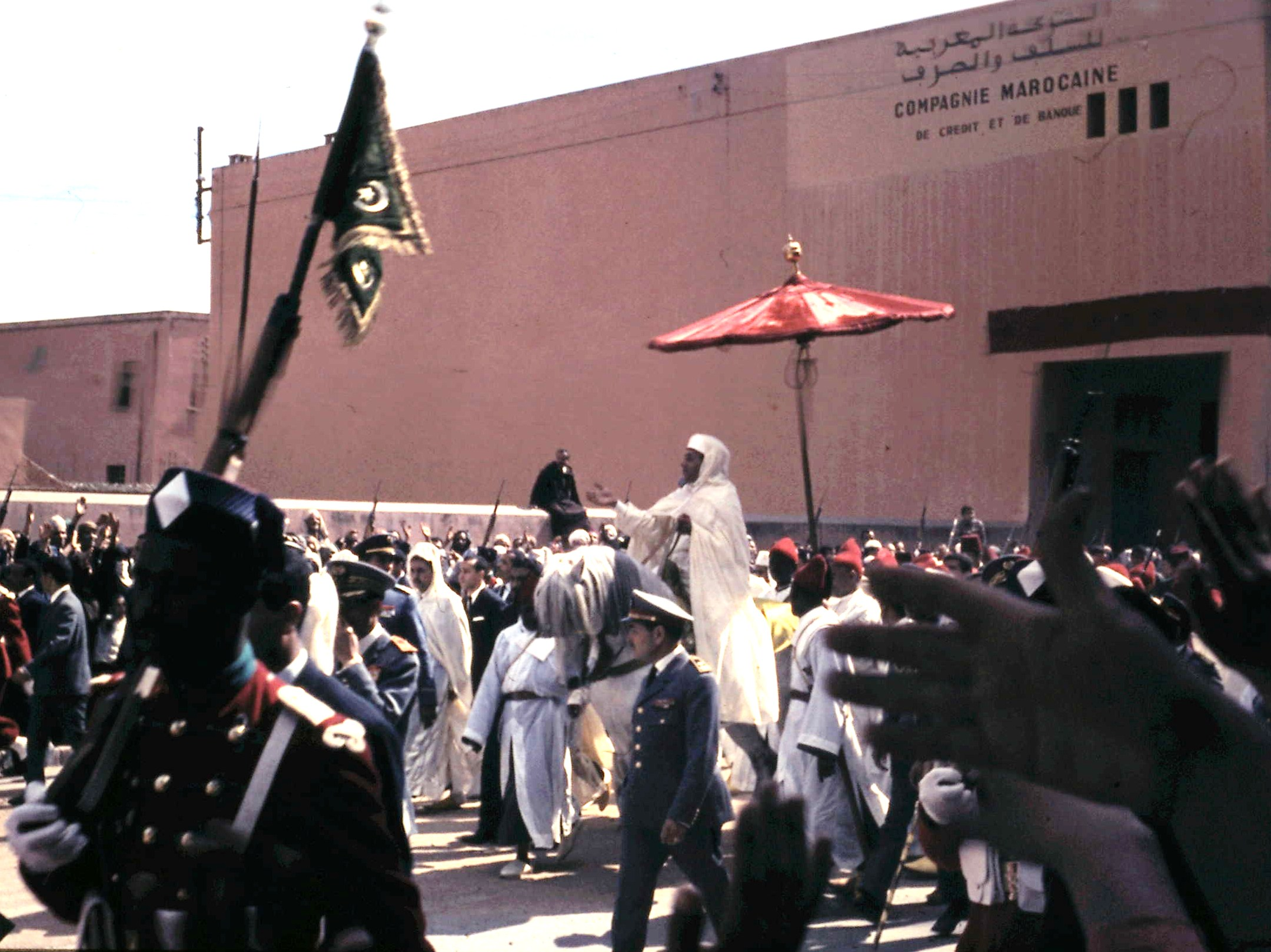 Hassan II., King of Morocco on his way to the friday prayers in Marrakech